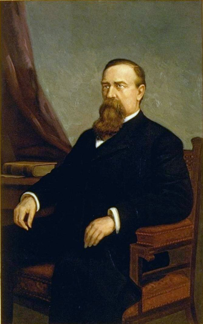 William Irwin (1827-1886), Governor of California 1875-80